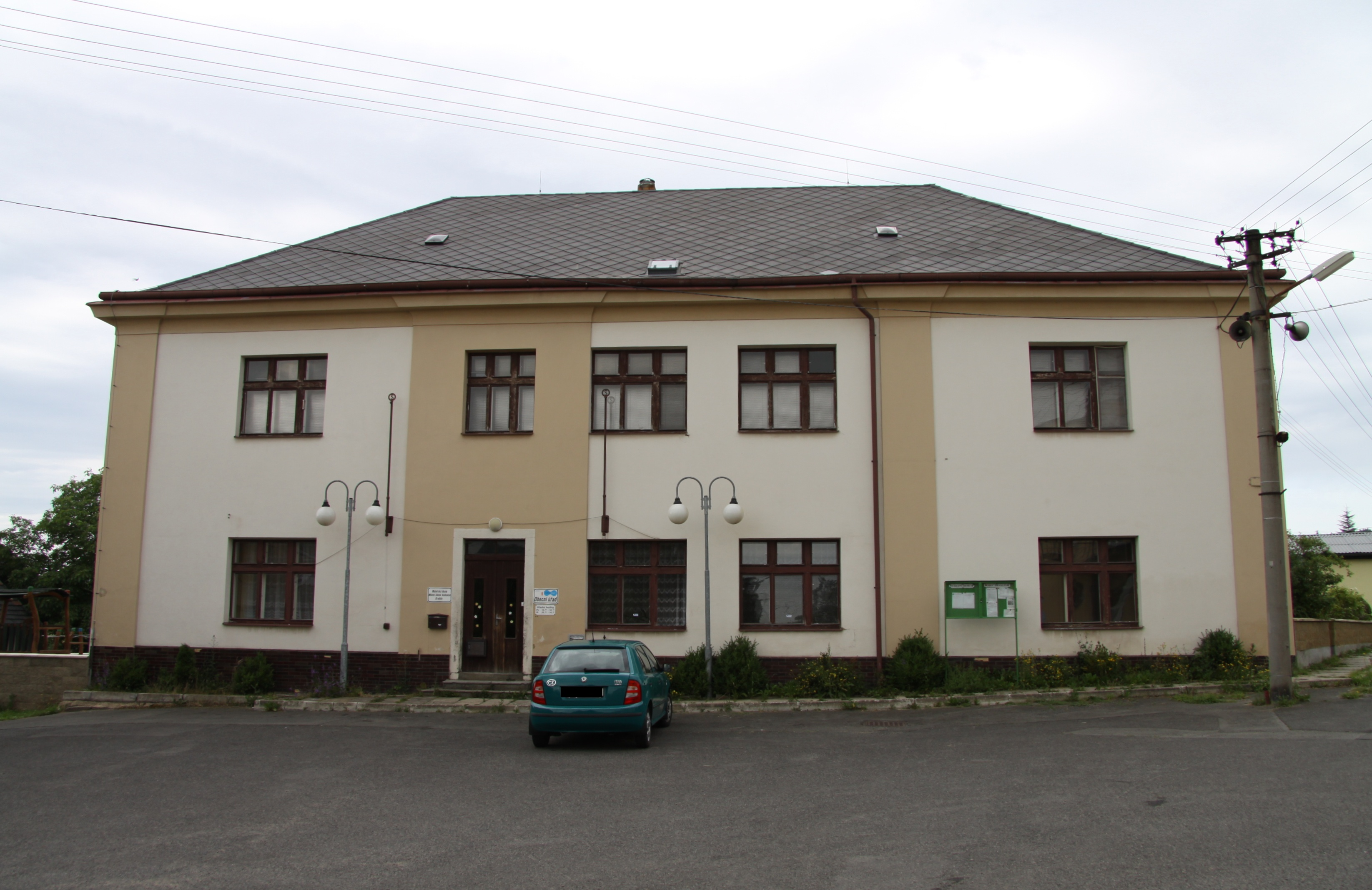 Drahlín village in Příbram District, Czech Republic.